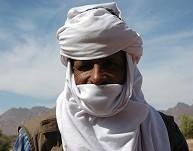 Vice Mayor Mohamed Houma, Iferouane, Northern Niger